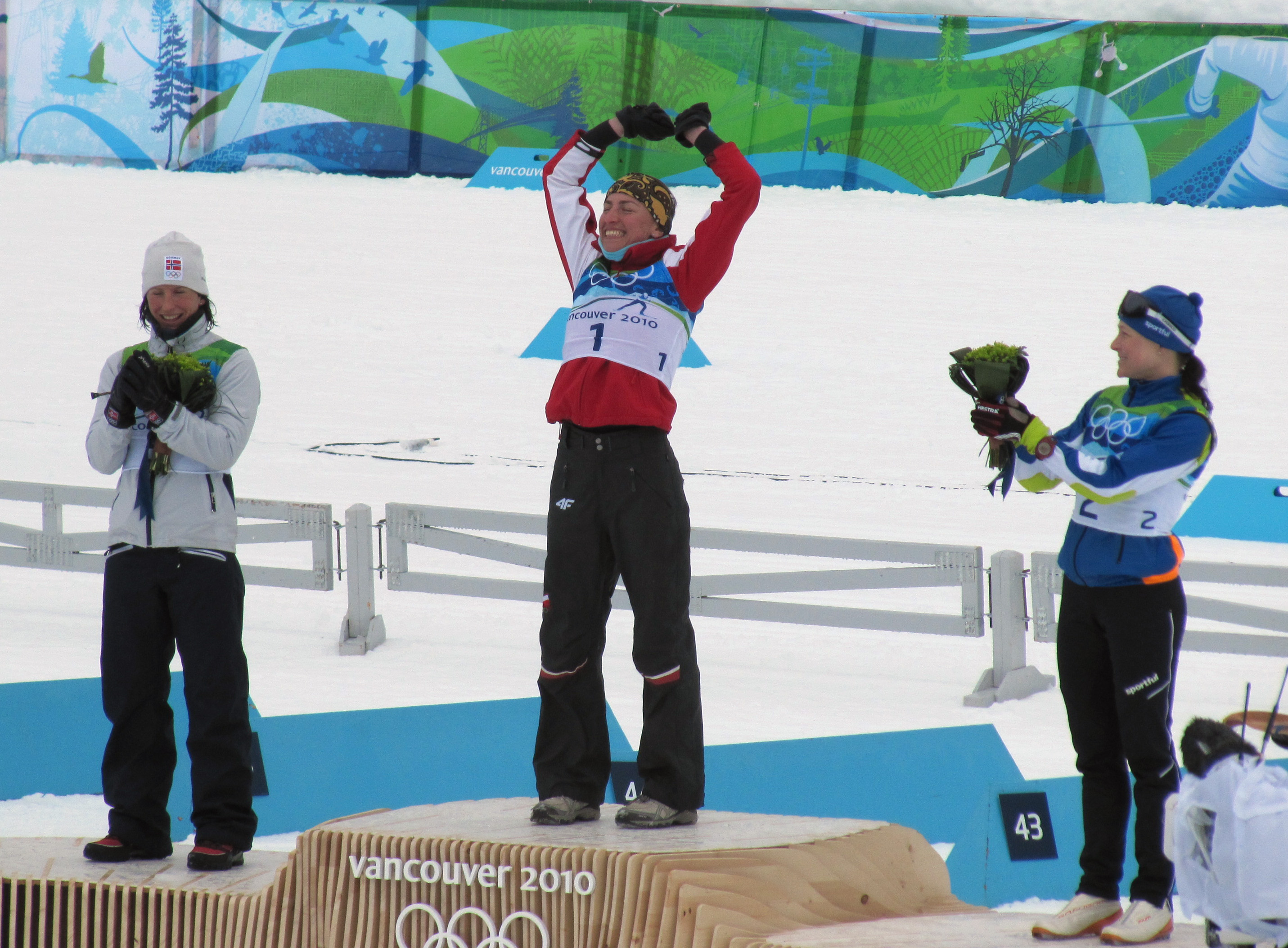 Marit Bjoergen of Norway celebrates winning silver, Justyna Kowalczyk of Poland gold and Aino-Kaisa Saarinen of Finland bronze during the flower ceremony for the ladies' 30 km mass start cross-country skiing classic on day 16 of the 2010 Vancouver Winter Olympics at Whistler Olympic Park Cross-Country Stadium on February 27, 2010 in Whistler, Canada.